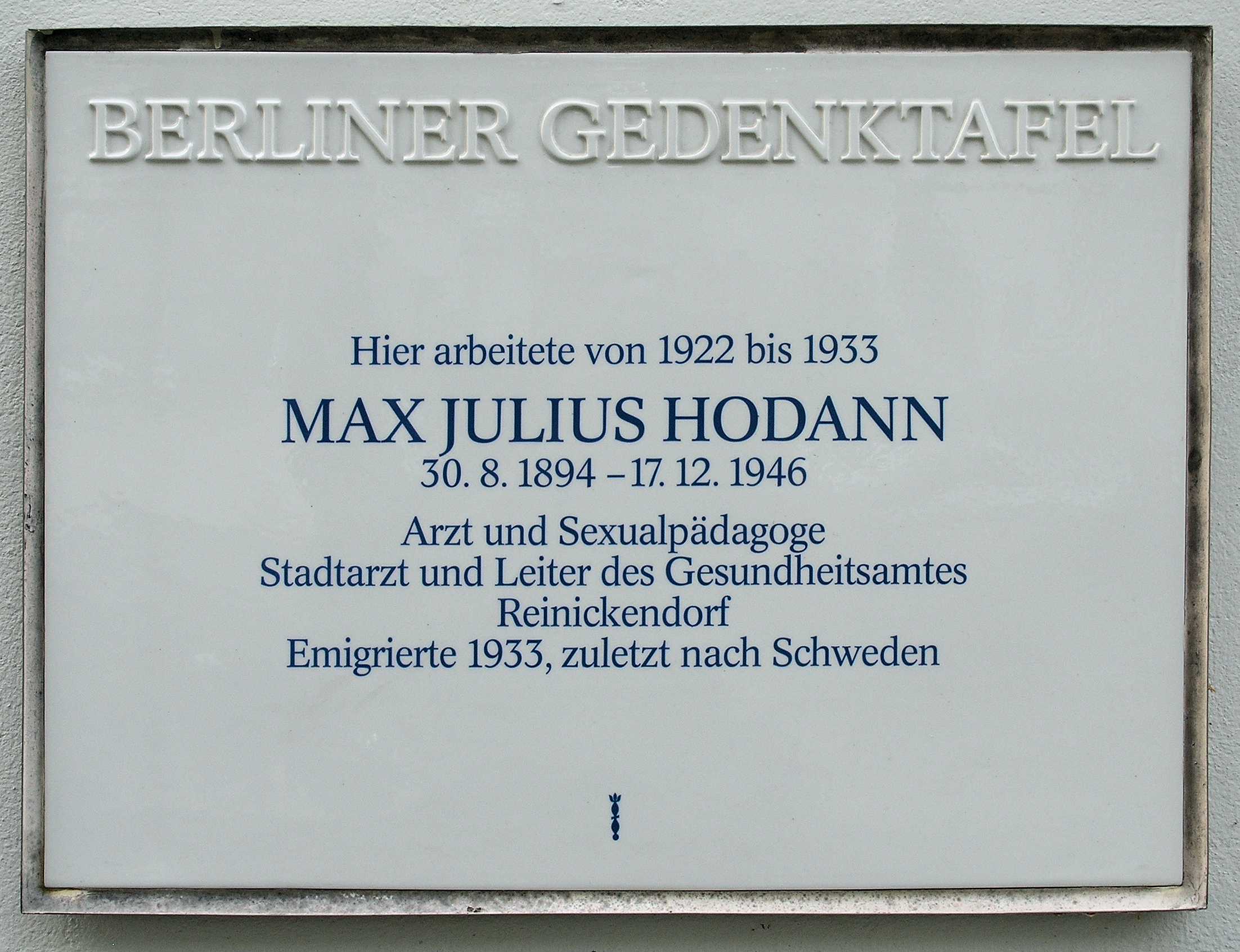 Berlin memorial plaque, Max Julius Hodann, Alt-Reinickendorf 45, Berlin-Reinickendorf, Germany